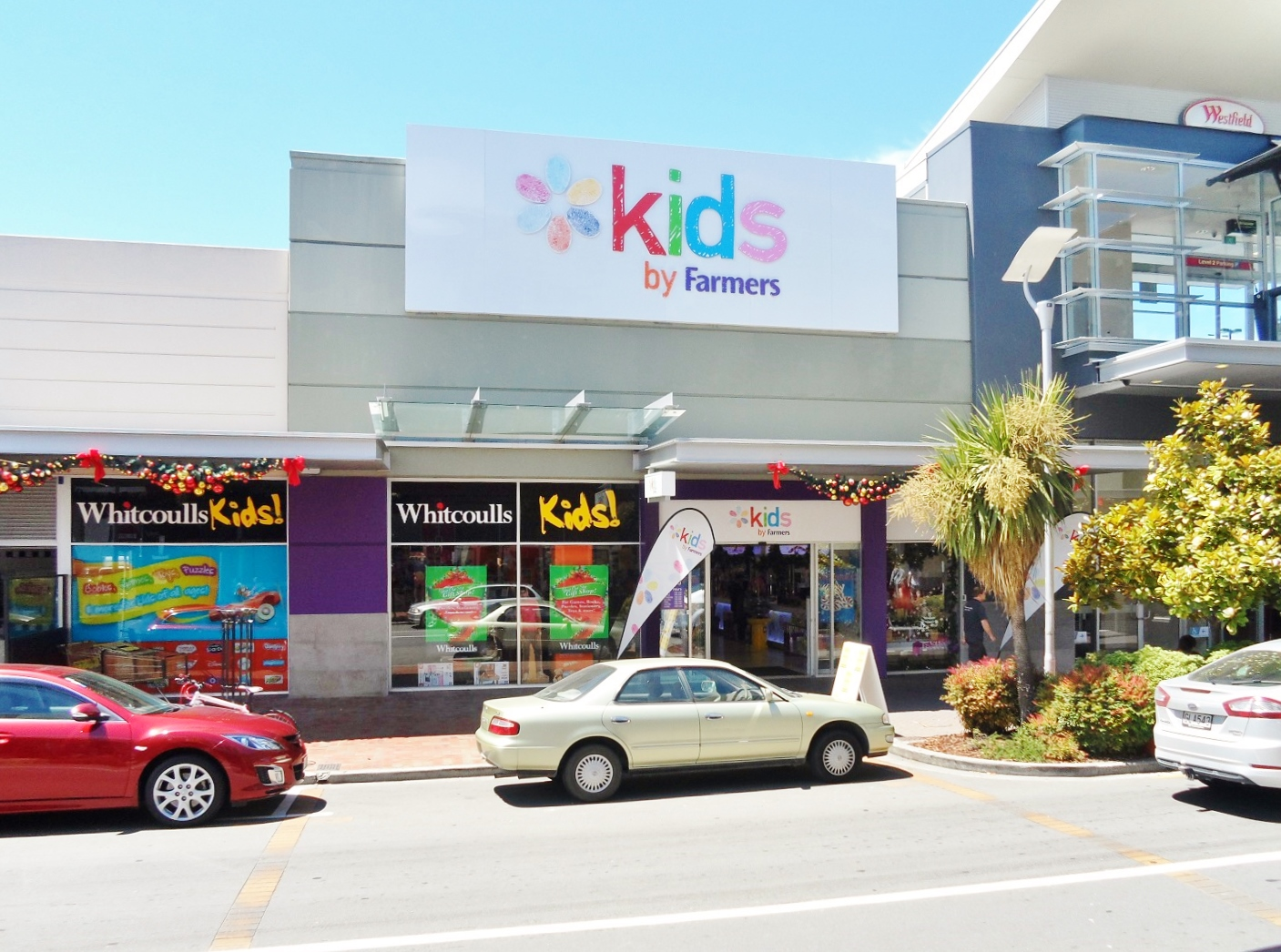 New Zealand department store Farmers Kids by Farmers Riccarton store at Westfield Riccarton in Christchurch, New Zealand in 2013.